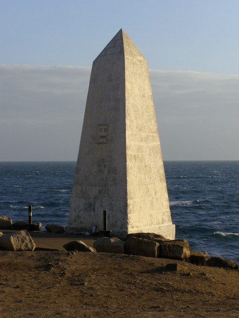 Trinity House obelisk, Portland Bill This seven metre tall white stone obelisk was built in 1844 at the southern tip of Portland Bill as a warning of a low shelf of rock extending 30 metres south into the sea. The obelisk was saved from threatened demolition in 2002. It is now accompanied by two 'talking telescopes', which have been removed from their mounts for the winter season.